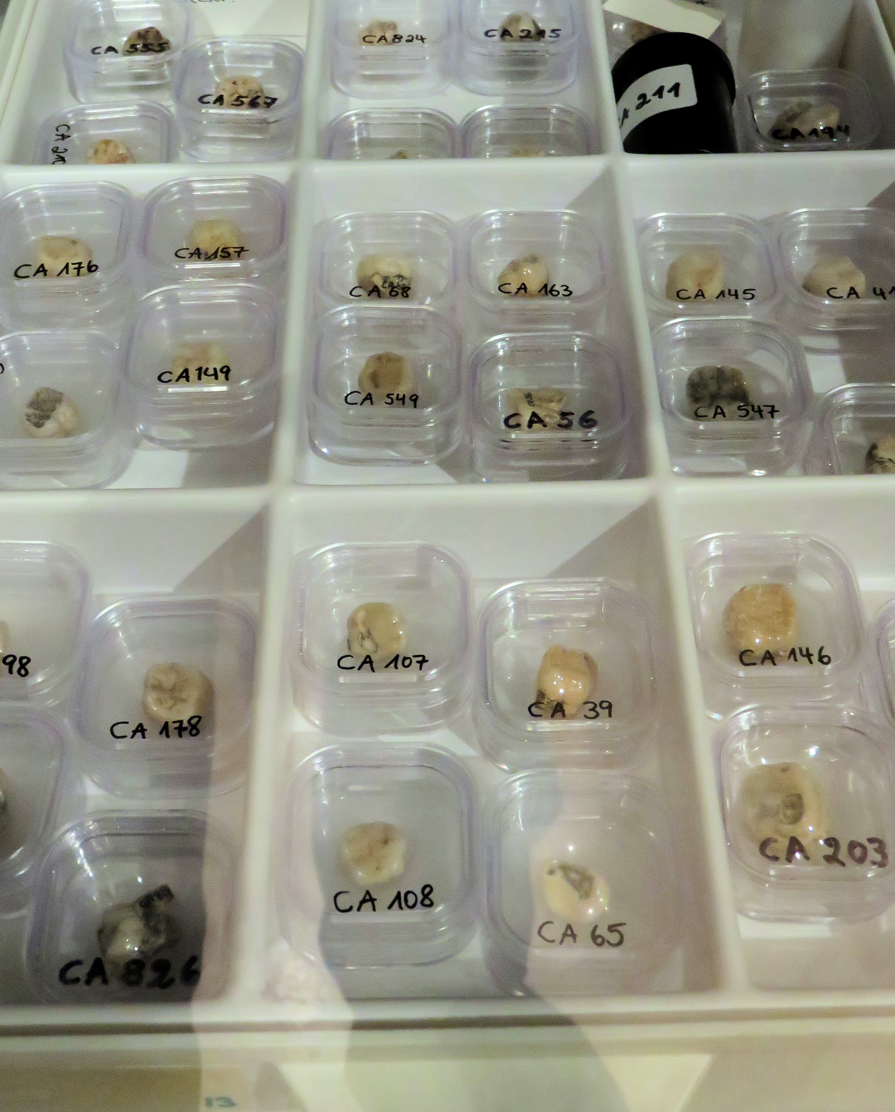 Hominin molars from Jawa, Indonesia. Collection Koenigswald, Senckenberg-Museum, Frankfurt am Main, Germany.